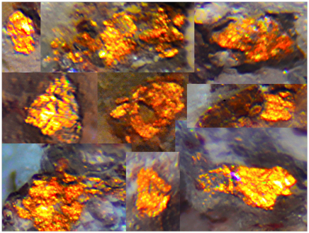 Gold ore metal in Peralta mine gold ore located using the Latin Heart.